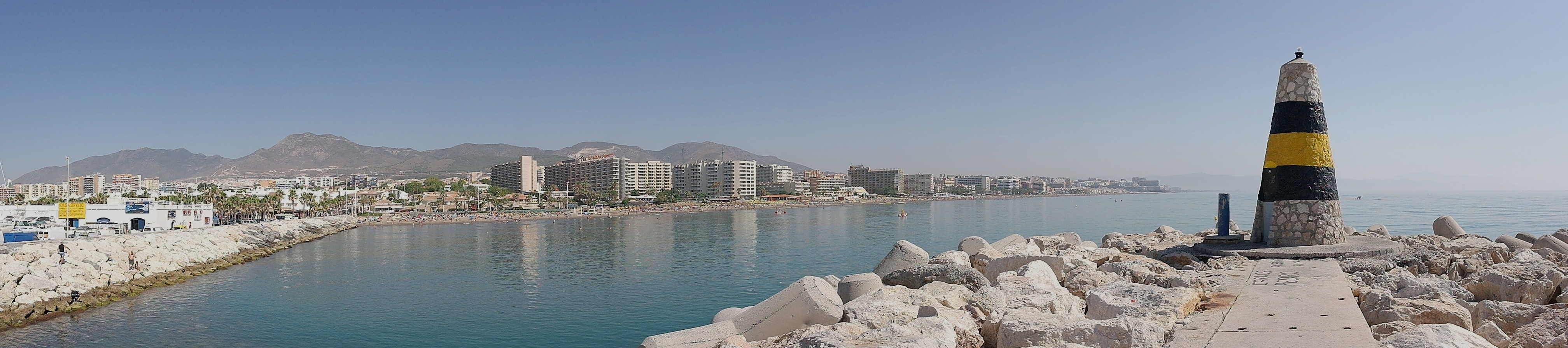 Panoramic of Torremolinos from the port of Benalmádena